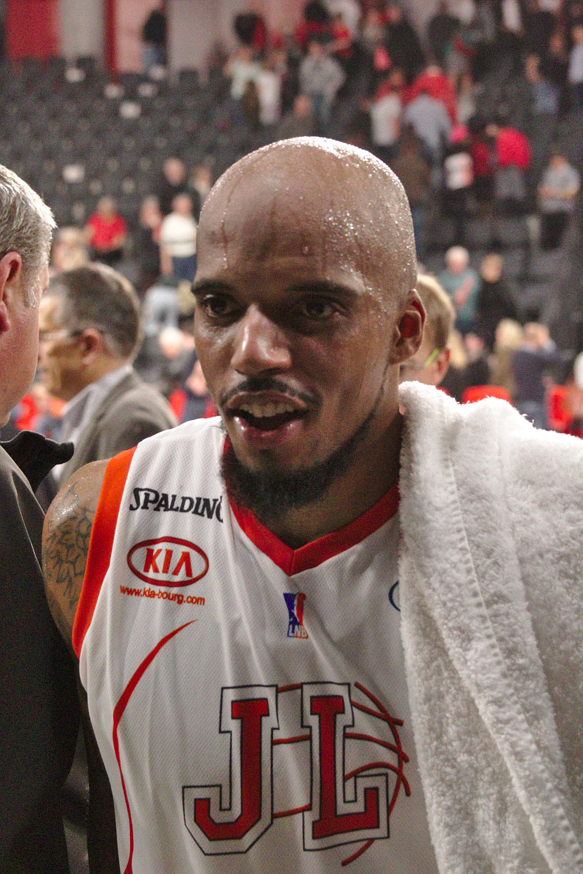 JLB-EB - 20150328 - Jordan Theodore